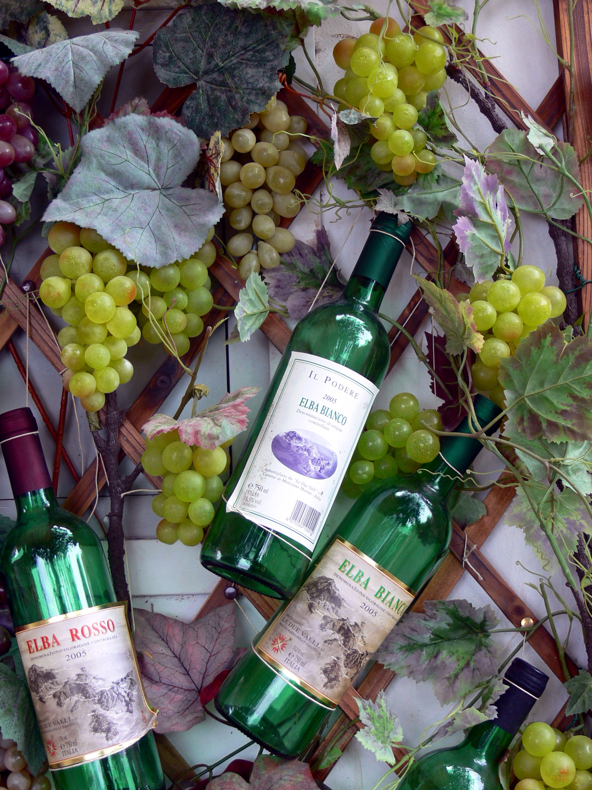 Marciana Alta ( Elba ). Bottles of wine from Elba.